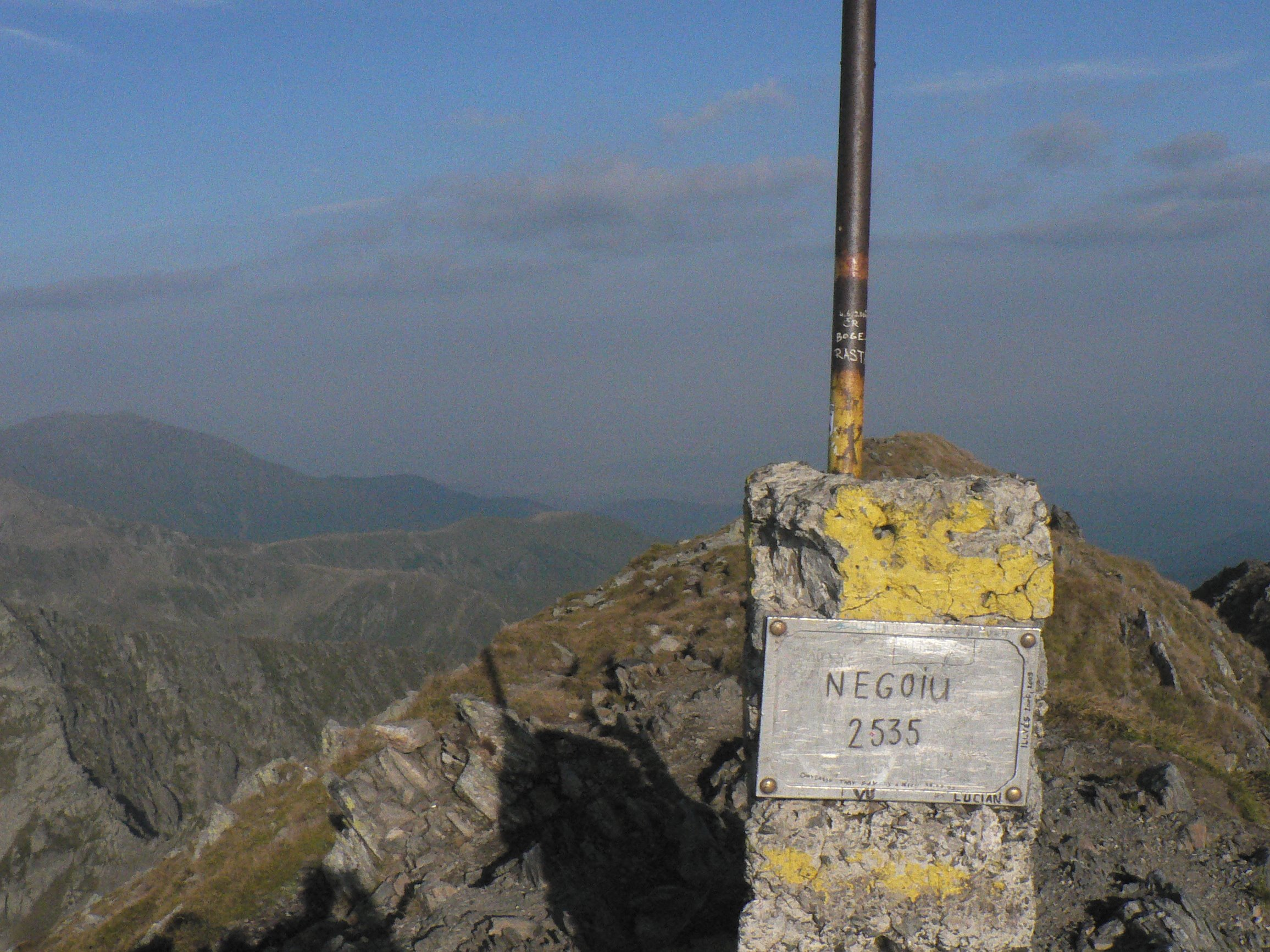 Fagaras Mountains, September 2009